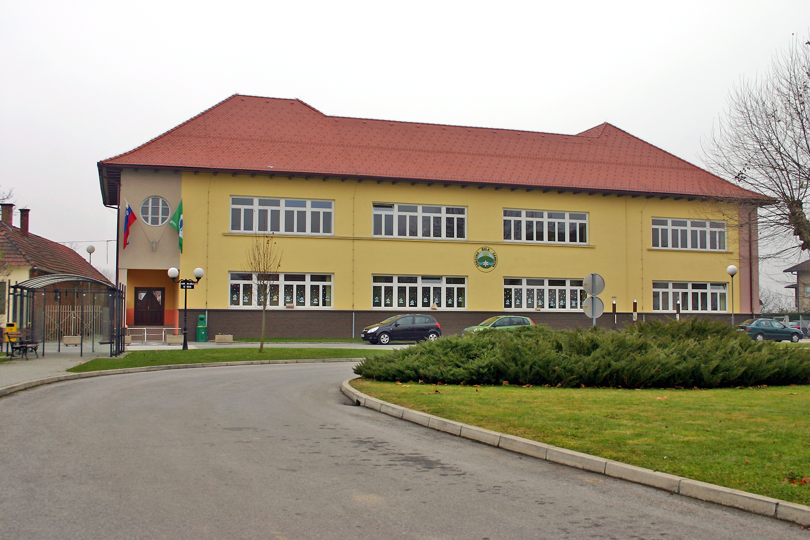 Elementary school Cankova